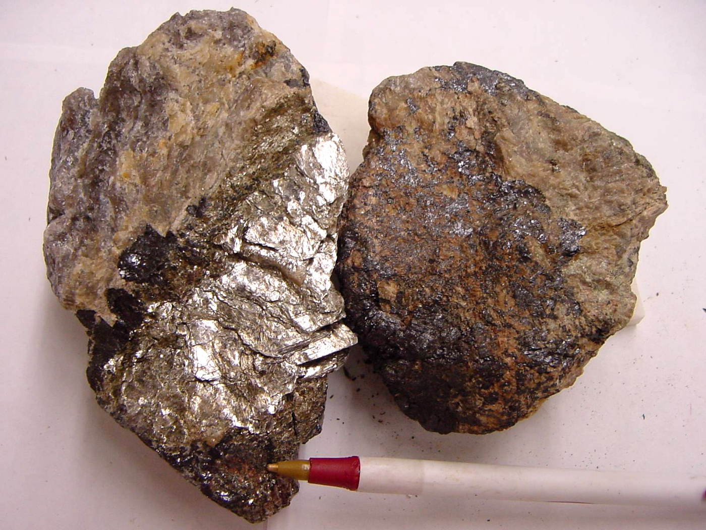 Samarskite, fresh surface. Pen for scale. Mineral collection of Brigham Young University Department of Geology, Provo, Utah. BYU index 4-8033, (FeYU)_2(NbTiTa)_2O_7.